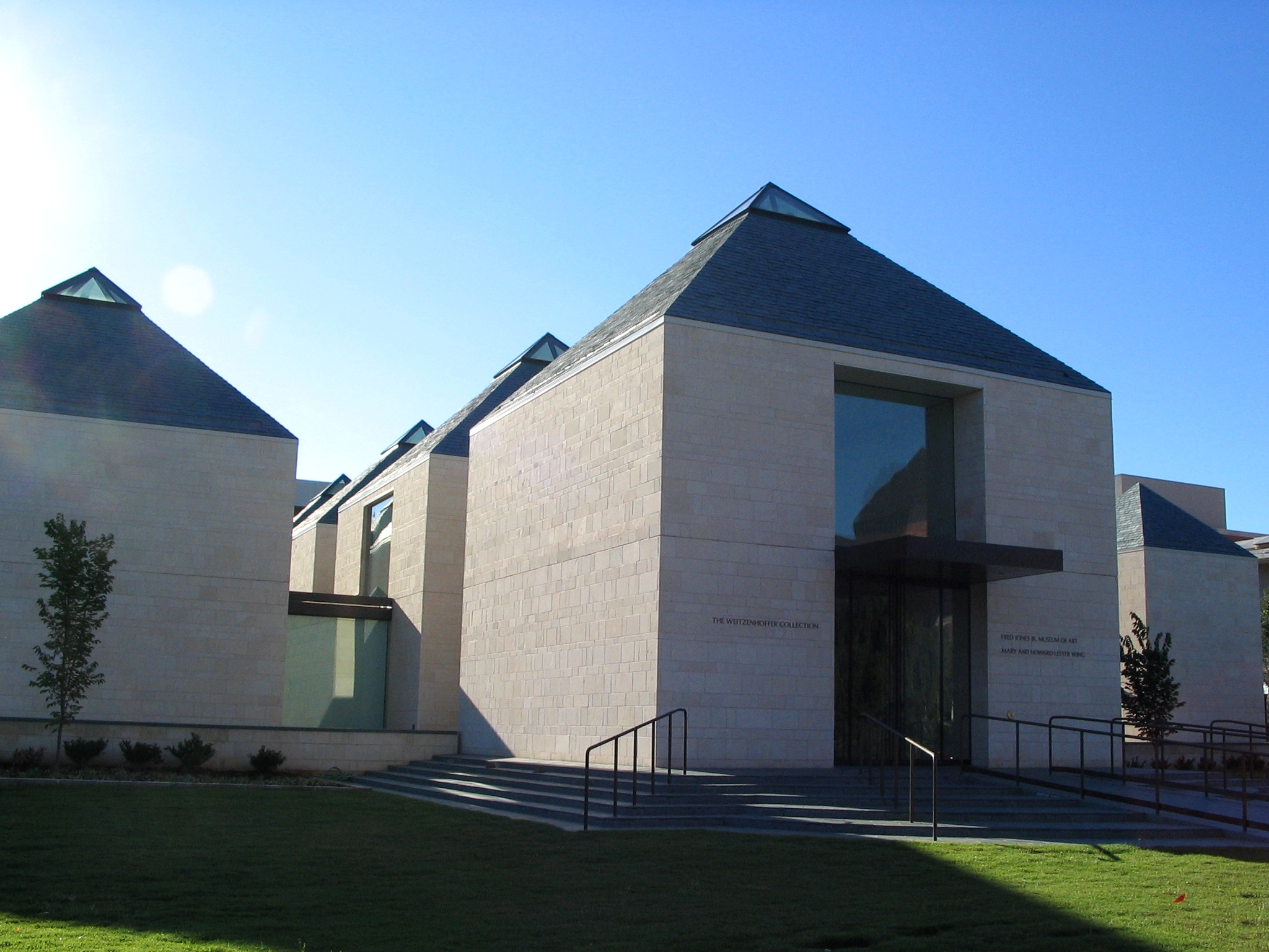 Picture of Fred Jones Museum of Art in Norman, OK